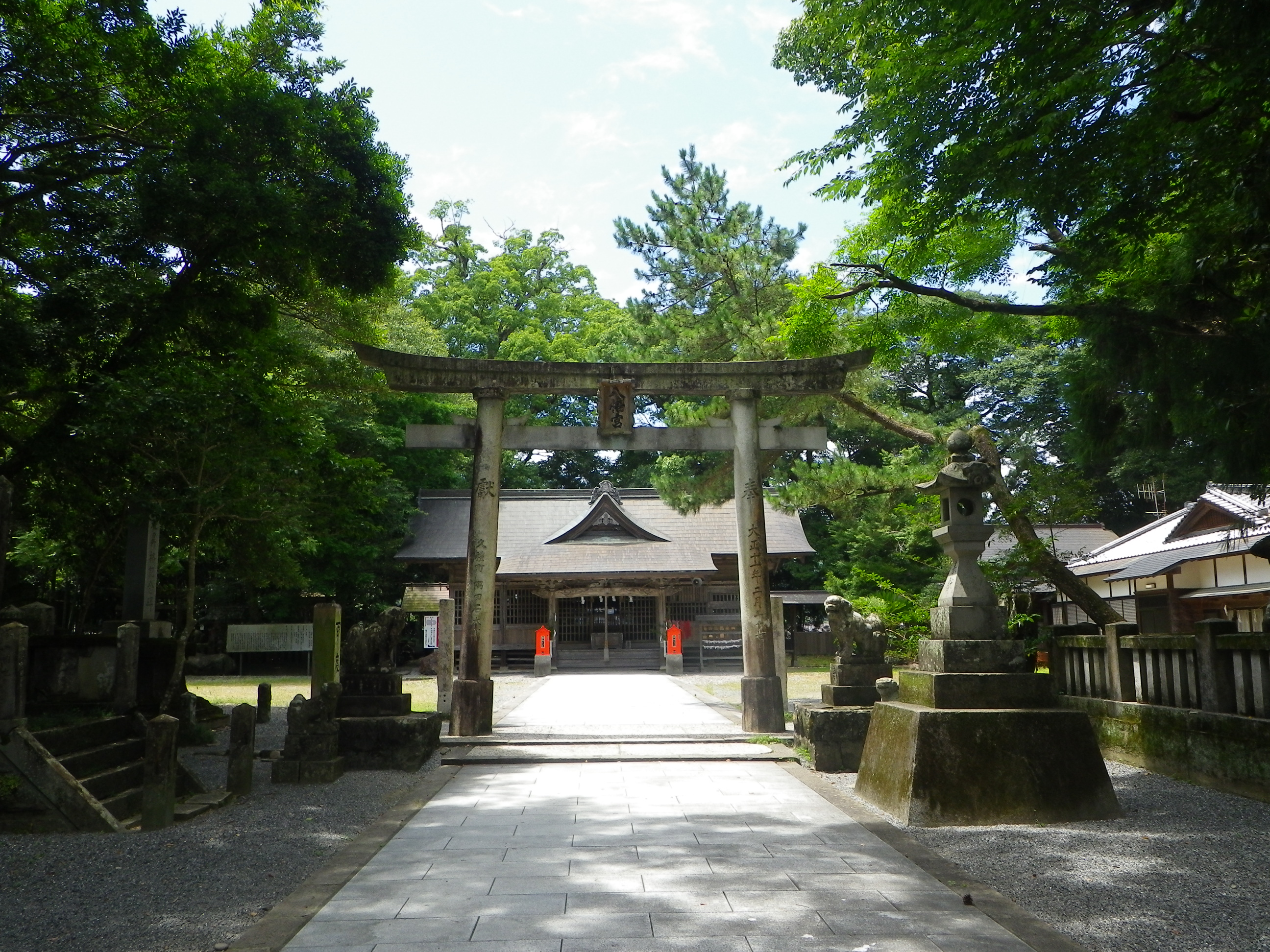 Kure Hachimangu shrine